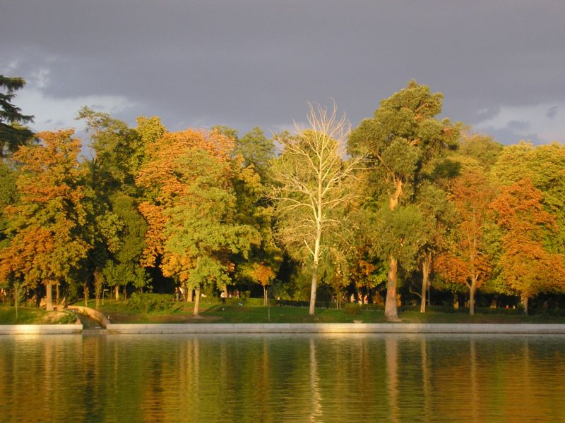 Retiro Park (Jardines del Buen Retiro) in Madrid (Spain).